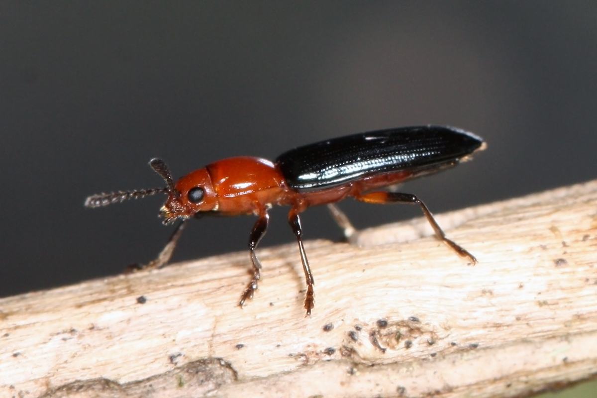 Clover stem borer (Languria mozardi) at Shelby Park in Nashville, Tennessee